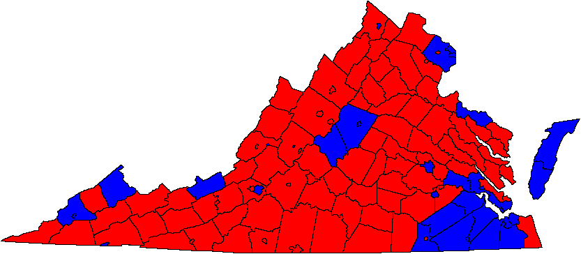 Map showing county choices of the 1972 Senate election in Virginia, between Republican William L. Scott and Democrat William B. Spong, Jr.